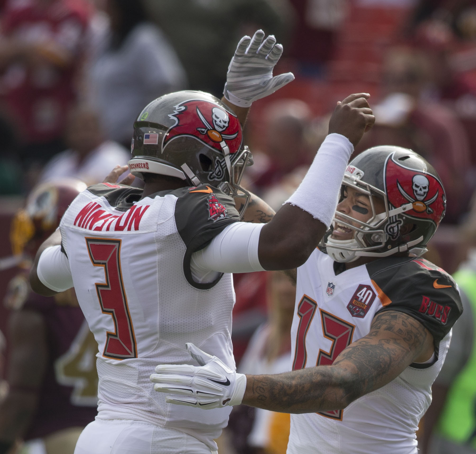 Buccaneers at Redskins 10/25/15